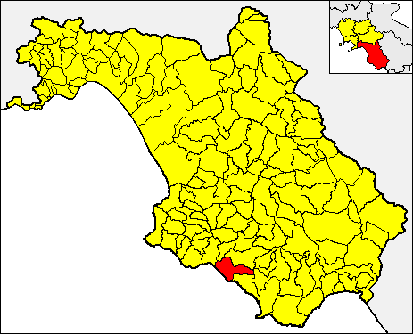 Locator map of the municipality of Ascea (red) within the Province of Salerno